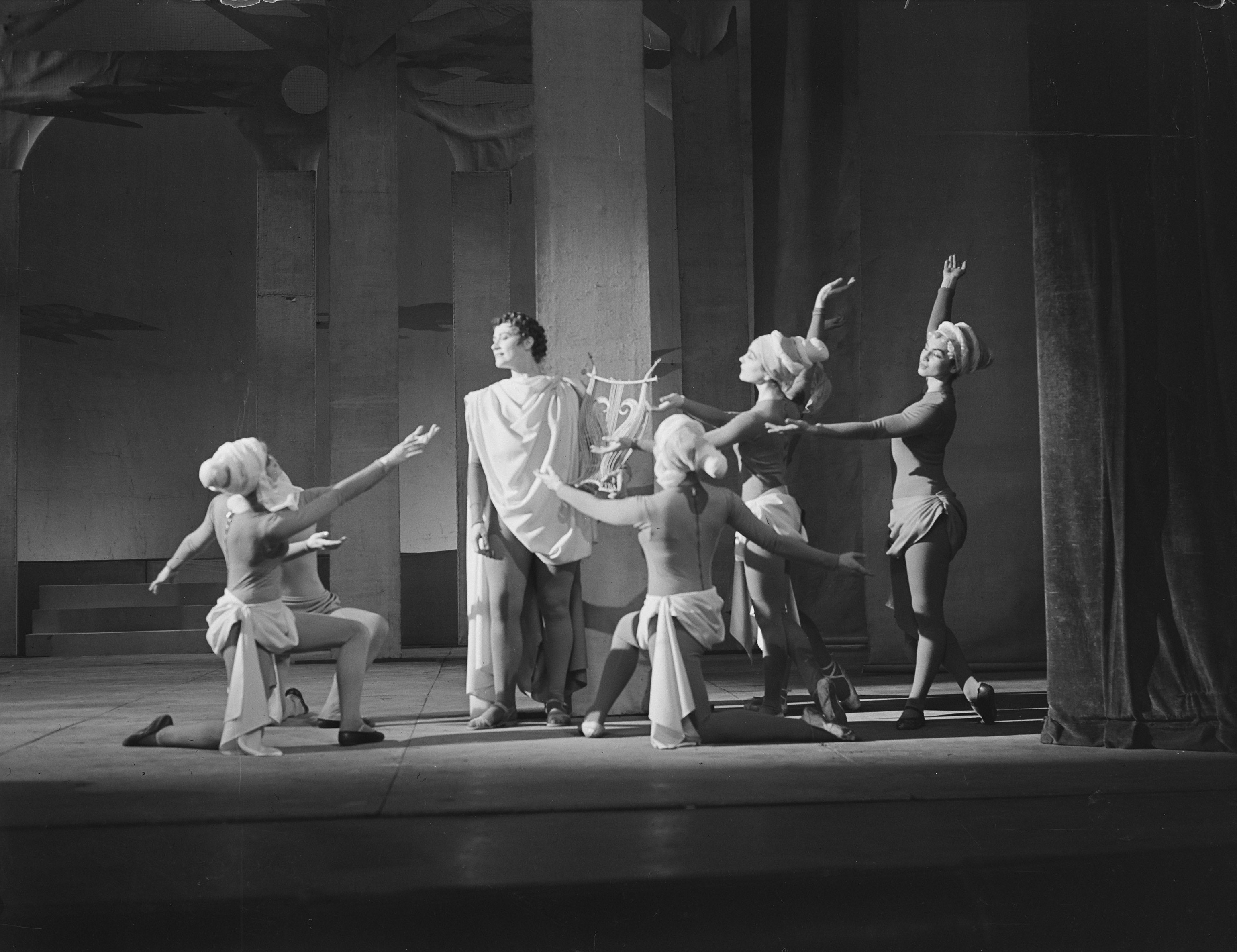 Kathleen Ferrier in Orfeo & Eurydice (the Netherlands, 23 June 1949